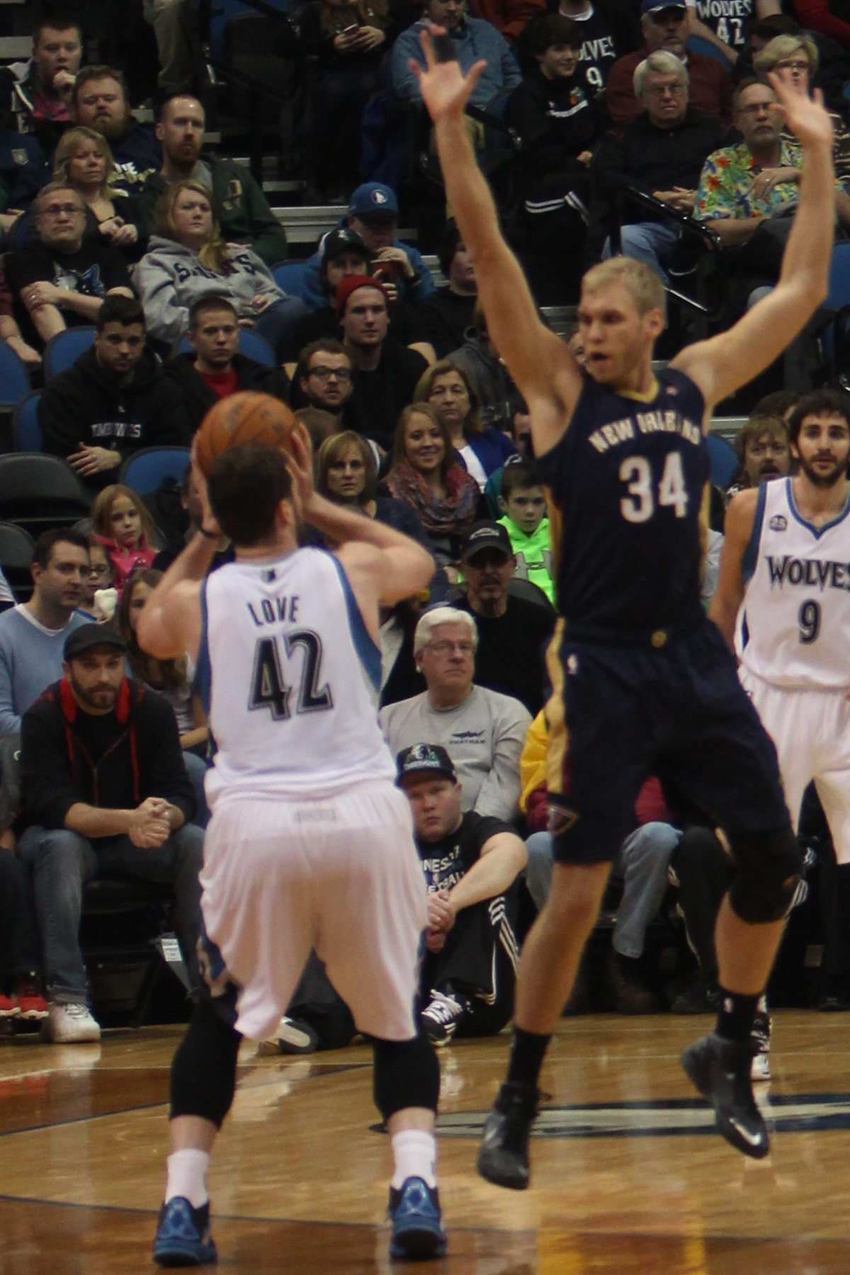 Greg Stiemsma at the Target Center